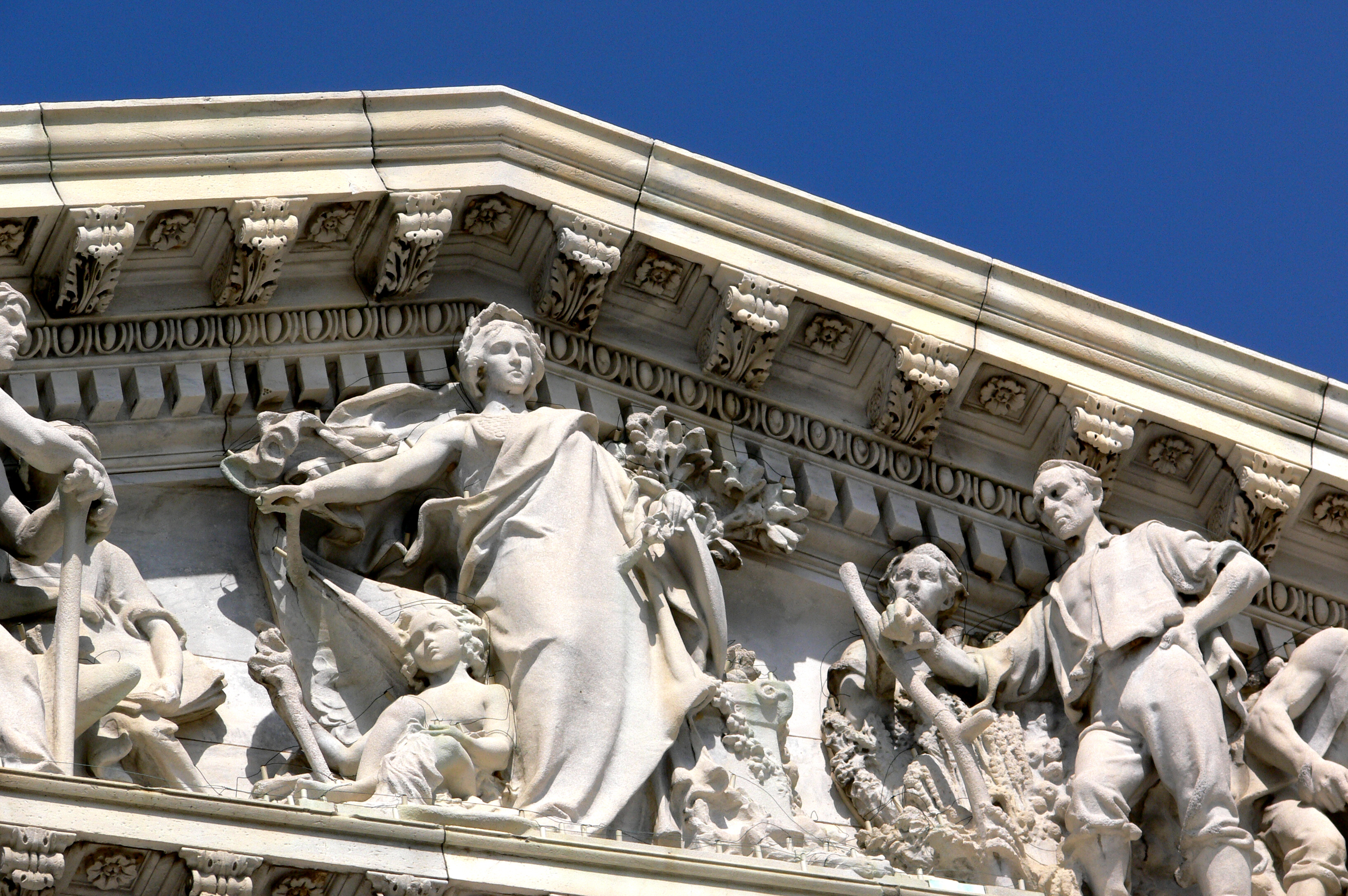 Detail of the pediment sculptural group known as Apotheosis of Democracy, which stands over the east entrace to the United States House of Representatives at the United States Capitol in Washington, D.C., in the United States. The sculpture was designed by Paul Wayland Bartlett between 1911 and 1914. It was carved in white marble from Georgia by the Piccirilli Brothers of New York City in from 1914 to 1916. it was unveiled on August 2, 1916. This detail shows the central group of figures, "Peace Protecting Genius". The central figure of Peace depicts an armed woman whose robe covers her breastplate and coat of mail. She stands in front of an olive tree, which is a symbol of peace. Her right arm gestures protectively over the Genius. Genius is depicted as a winged young man who and holds torch. The torch symbolizes immortality. Not visible here, Industry (to the left) and Agriculture (only a small portion of which is visible to the right) depict the sources of wealth in America. Waves in the far corners represent the Atlantic Ocean and the Pacific Ocean.